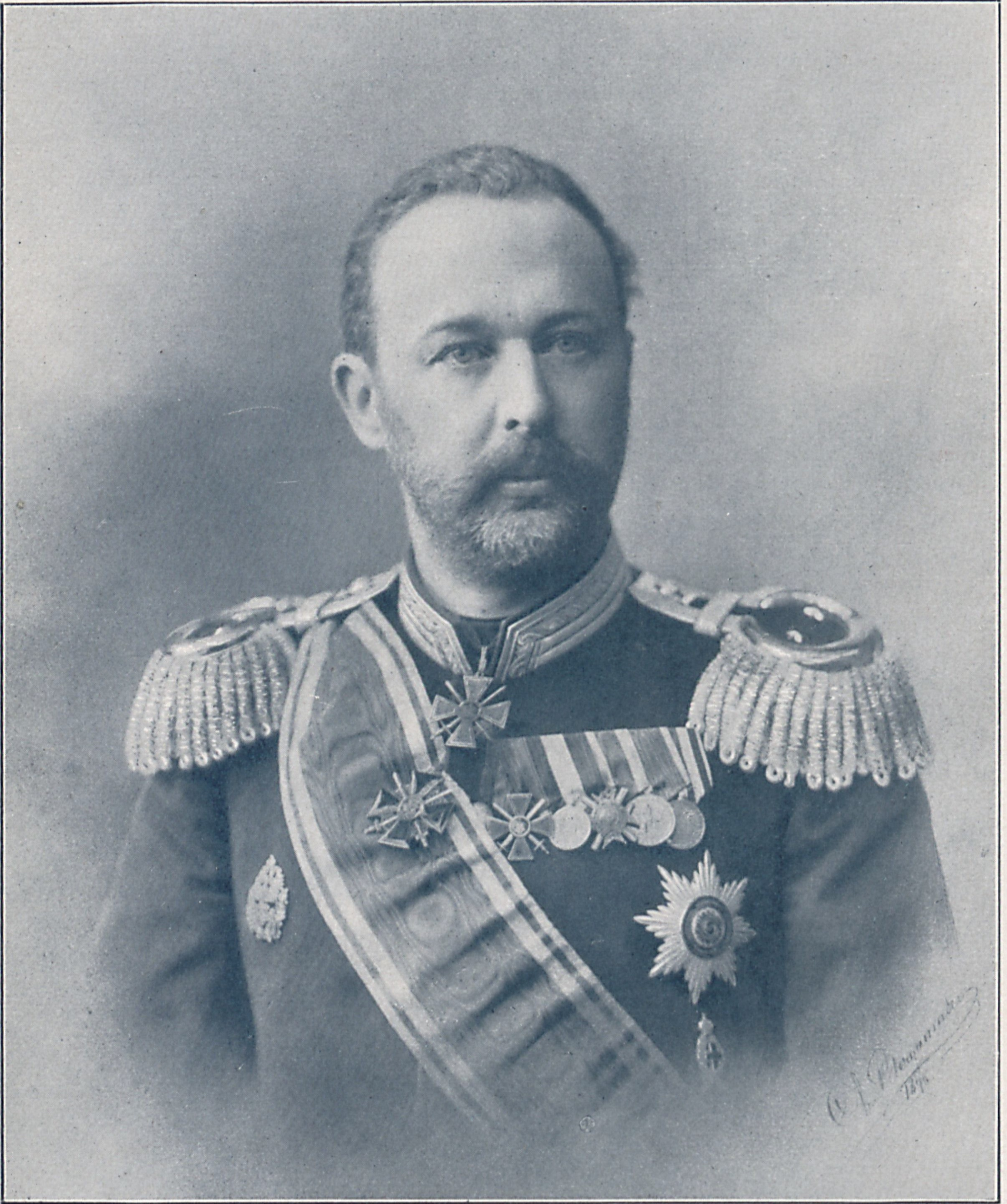 Carl Dietrich Christoph von Reyher (1846-1890)